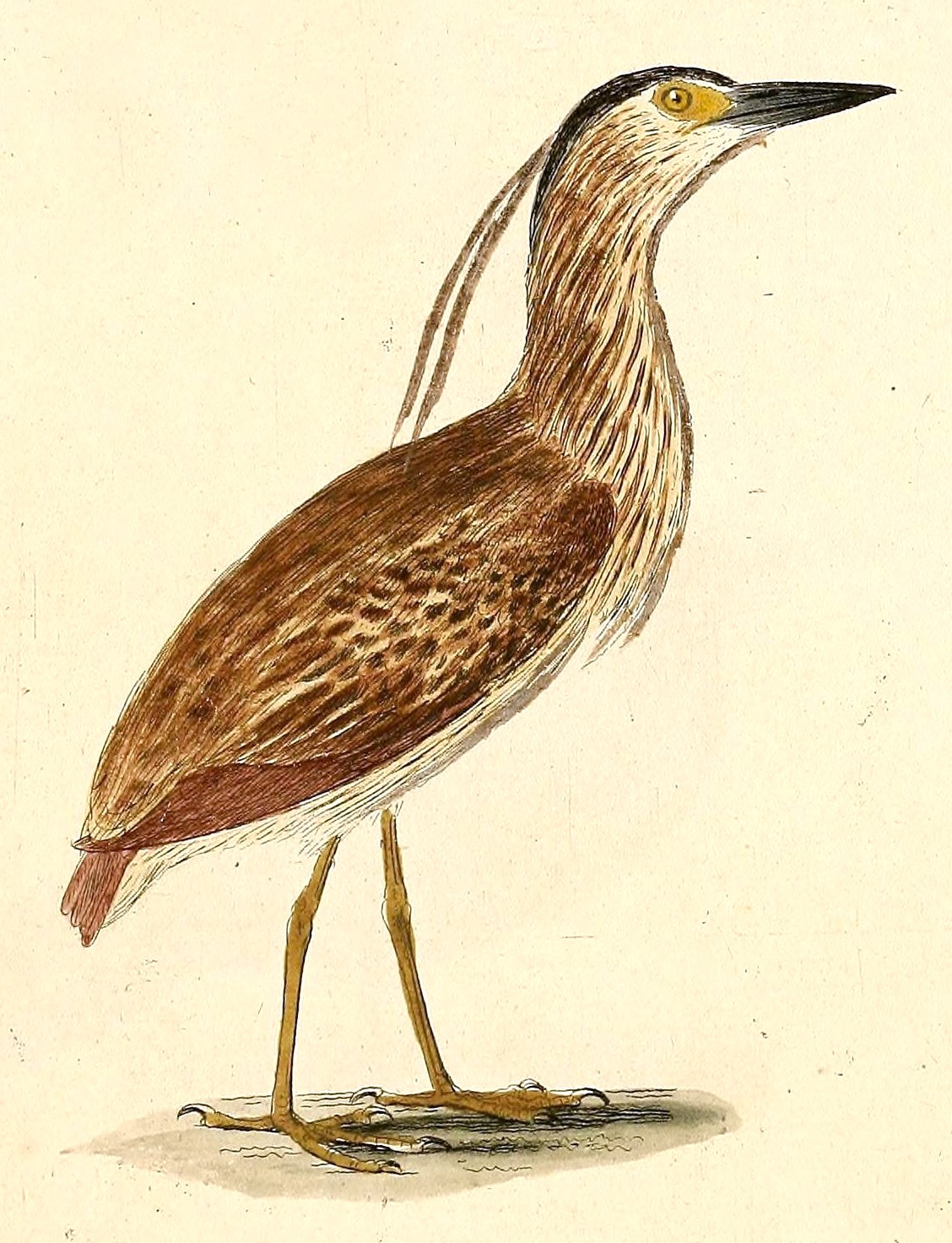 « Ardea caledonica » = Nycticorax caledonicus crassirostris (Subspecies of Nankeen Night Heron)